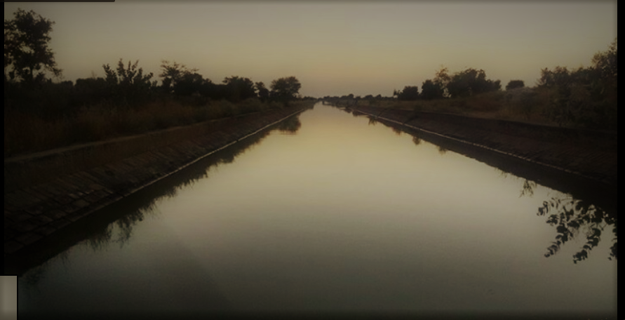 This canal is passing through the village raiya tunda